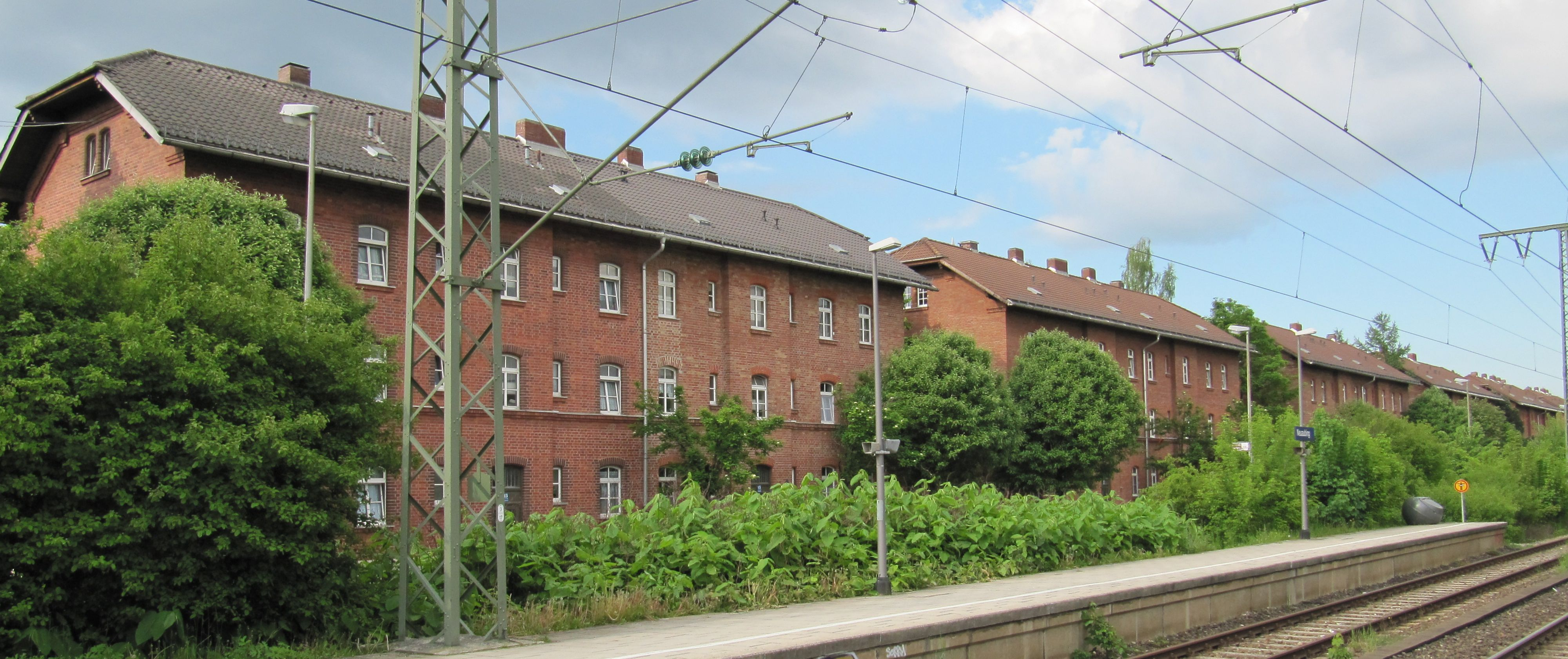 Munich-Aubing: Appartment buildings for trainmen, Papinstraße 13, 15, etc.